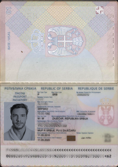 Holder information page of a Serbian passport.